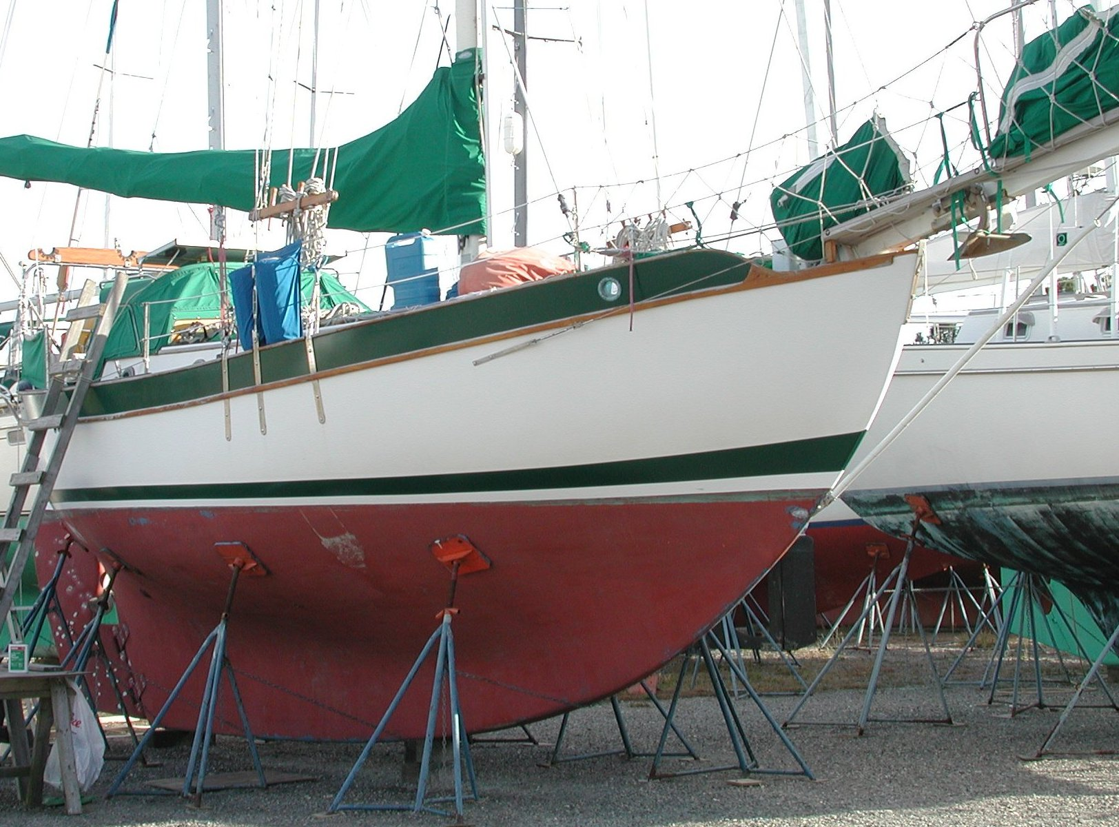 A Westsail 32 on stands in the boatyard. The very full keel is clearly visible.